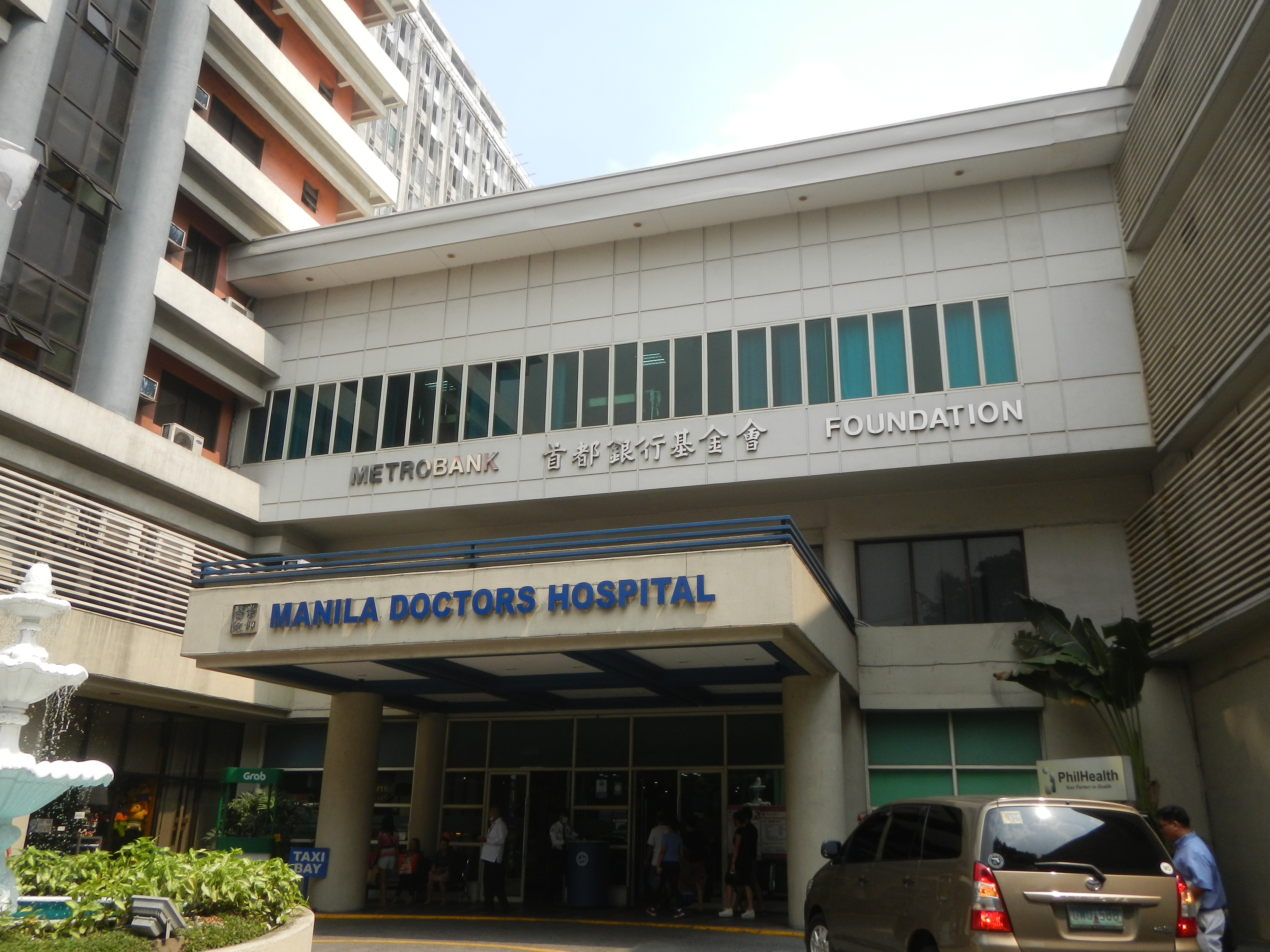 Ermita, Manila, United Nations Avenue along Taft Avenue corner Maria Orosa Street (Calle Flórida) corner Kalaw Avenue; List of roads in Metro Manila, Major roads in Manila United Nations LRT Station, landmarks include List of hospitals in Manila Manila Doctors' Hospital (MDH) started operations in 1956 - 667 United Nations Avenue, (Ermita, Manila, List of hotels in Metro Manila Waterfront Manila Pavilion Hotel and Casino PAGCOR Casino Filipino Pavillion Philippine Amusement and Gaming Corporation, List of casinos in the Philippines Casino Filipino (Note: Judge Florentino Floro, the owner, to repeat, Donor Florentino Floro of all these photos hereby donate gratuitously, freely and unconditionally all these photos to and for Wikimedia Commons, exclusively, for public use of the public domain, and again without any condition whatsoever).